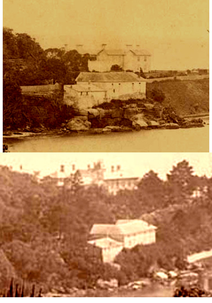 View of early Woollahra House circa 1870 built by Sir Daniel Cooper in 1856 compared with later Woollahra House circa 1890 built by William Cooper in 1883